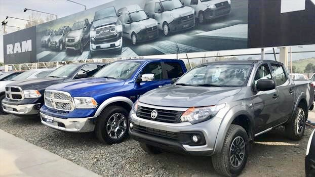 RAM 1200 and RAM 1500 in Chile. The RAM 1200 is the rebadged Fiat Fullback for the LATAM market.